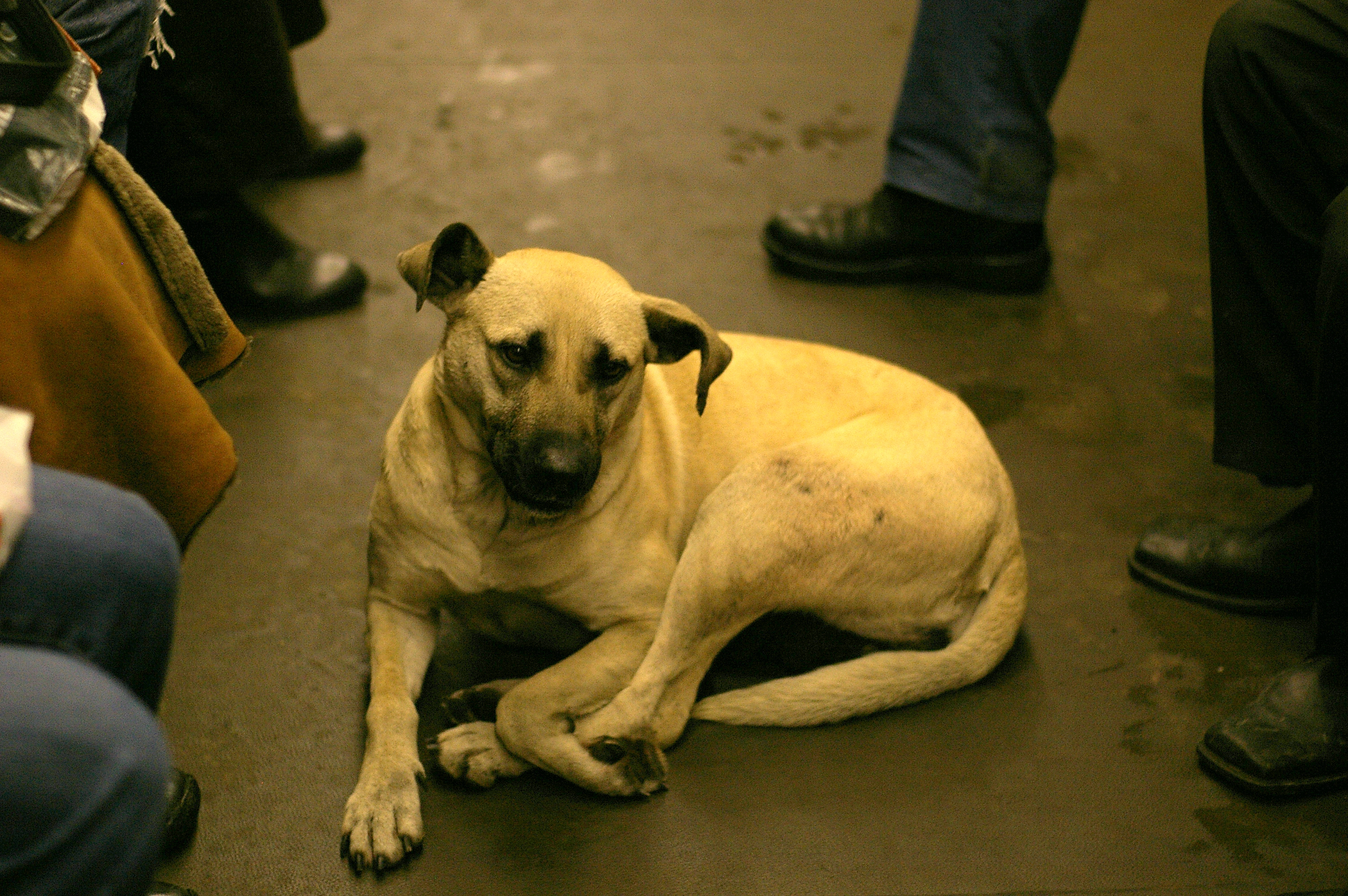 Street Dog Riding the Subway. We were only on the subway for one stop (no pun intended.) By the time I opened my bag and camera case, got out my camera, changed the aperture, ISO, and shutter speed, I barely had time to snap this handsome fellow. Used here